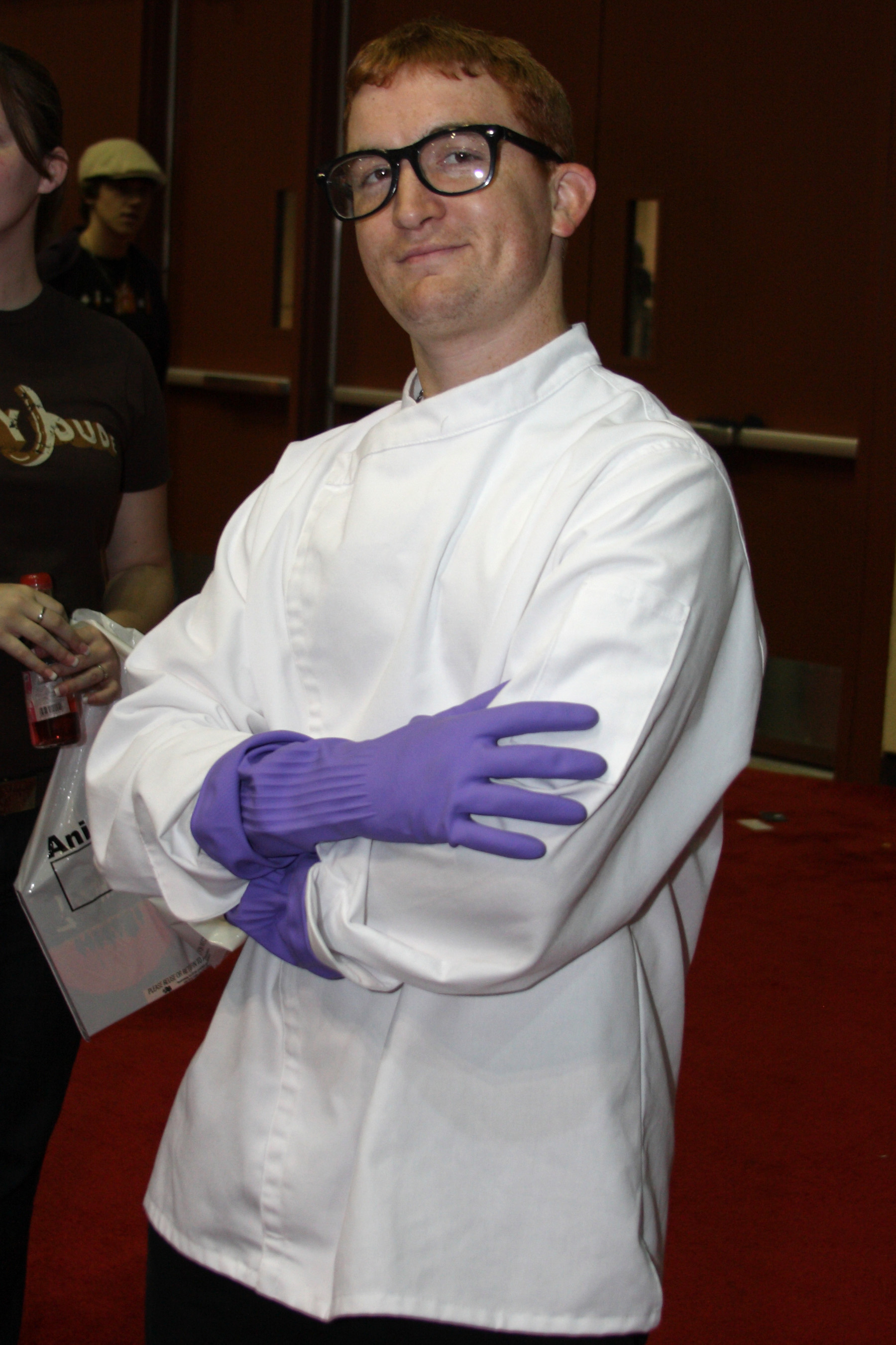 Cosplay of Dexter (from Dexter's Lab) at MegaCon 2010 in Orlando, Florida. Love the costume!